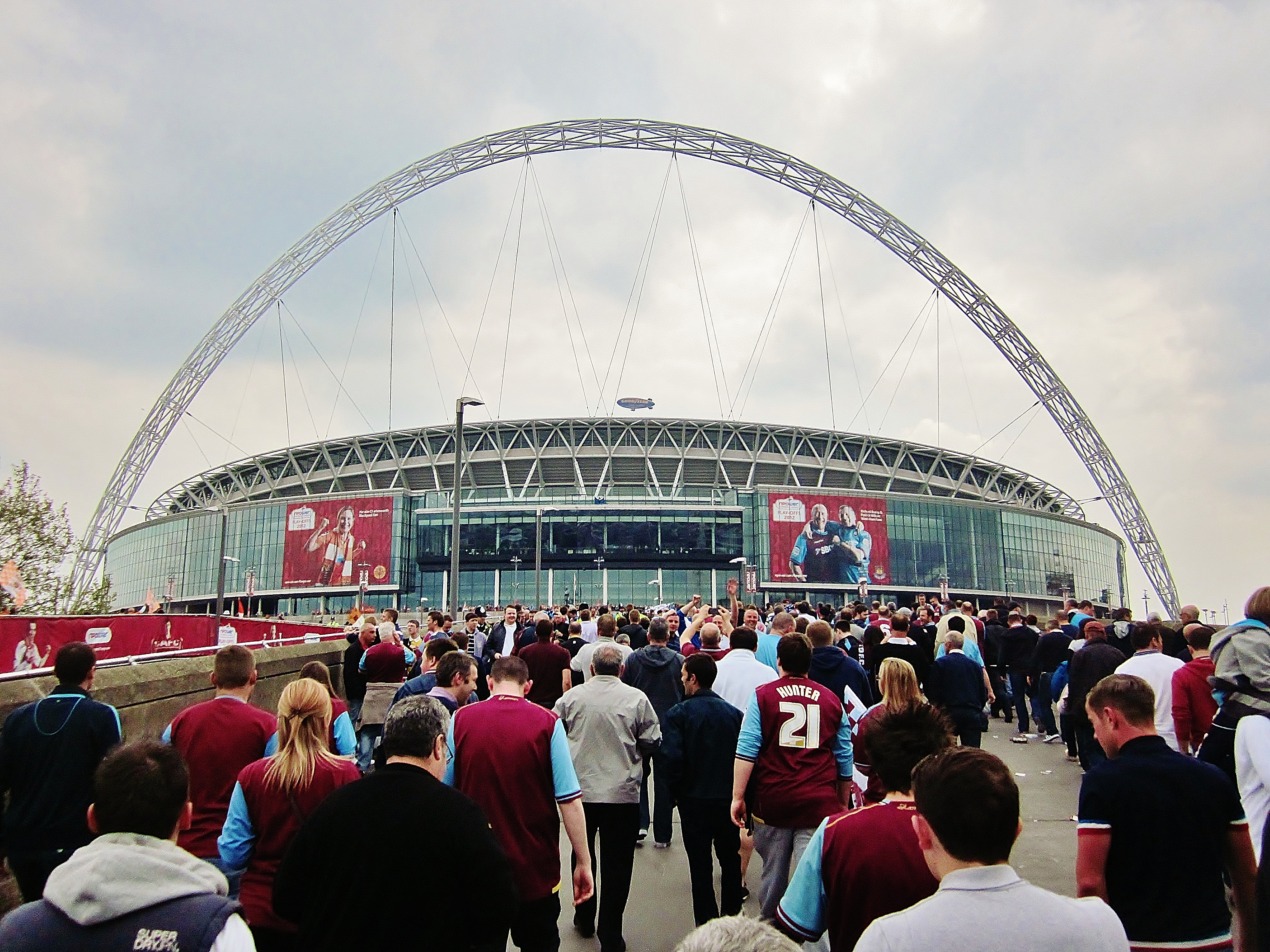 A photo of the view from Wembley Way prior to the 2012 Championship Playoff Final between West Ham and Blackpool.